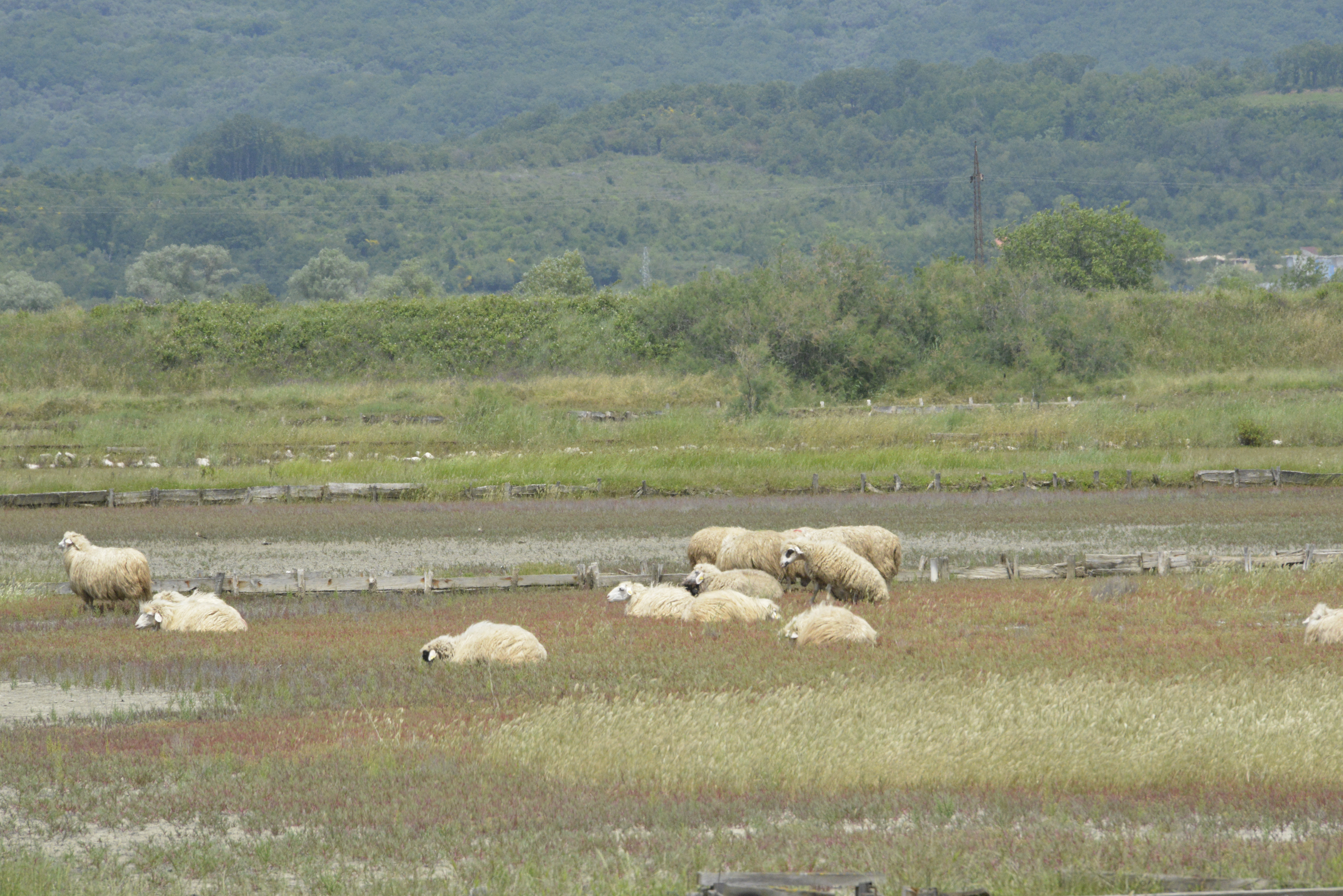 Ulcinj Salinas, summer 2019